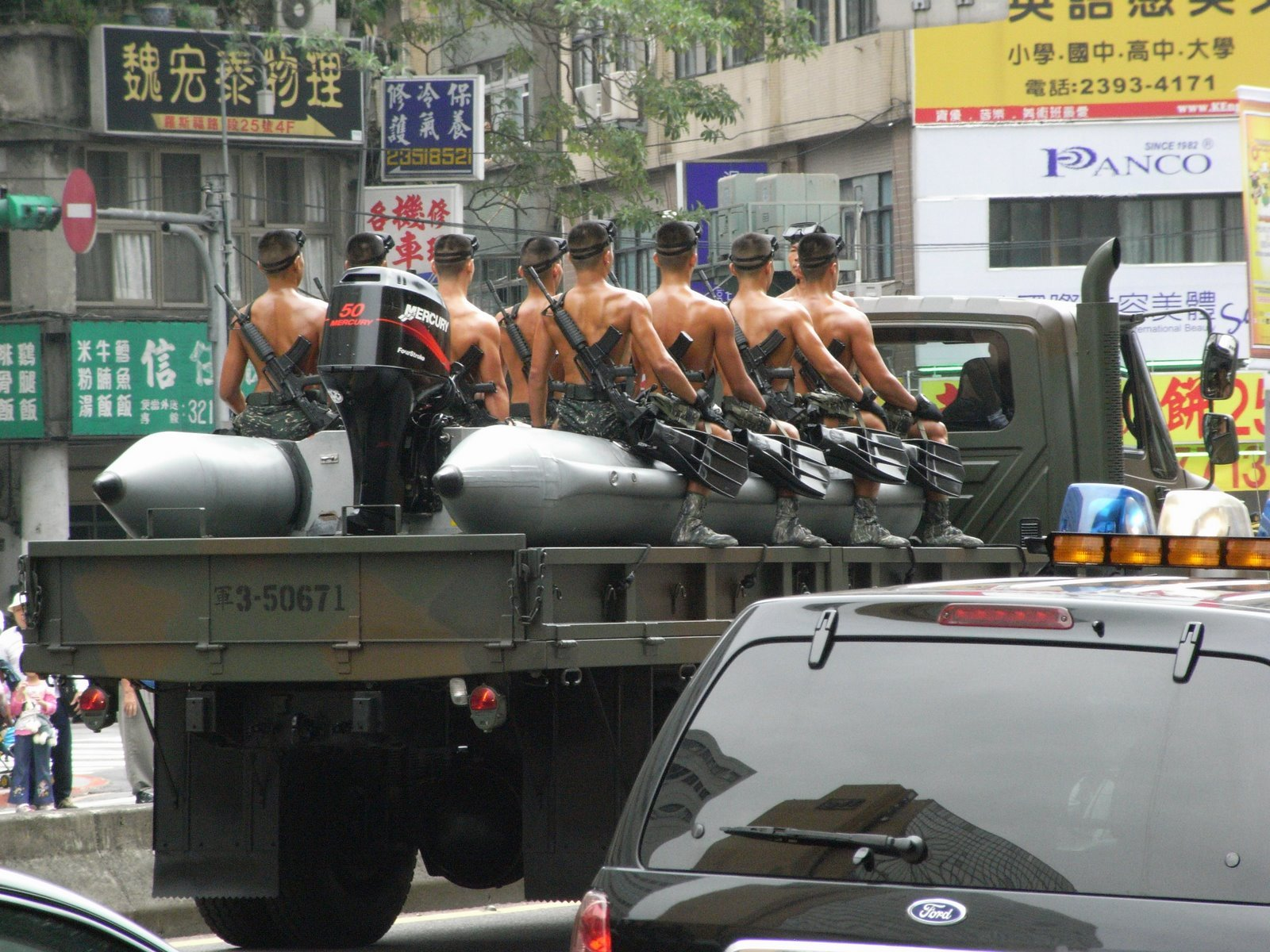 Military personnel parade of Republic of China Marine Corps Amphibious Reconnaissance and Patrol Unit, through Taipei on Double Ten Day 2007.